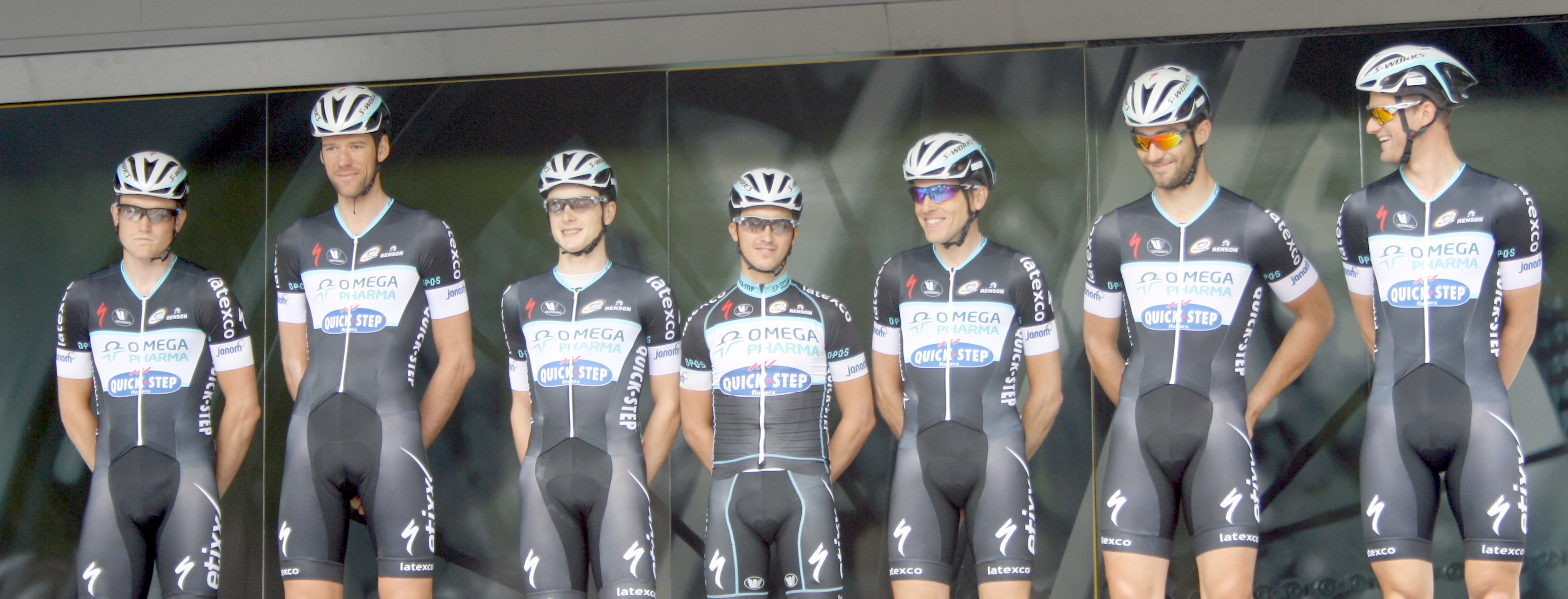 Omega Pharma Quickstep at the start of the World Ports Classic 2014 in Rotterdam